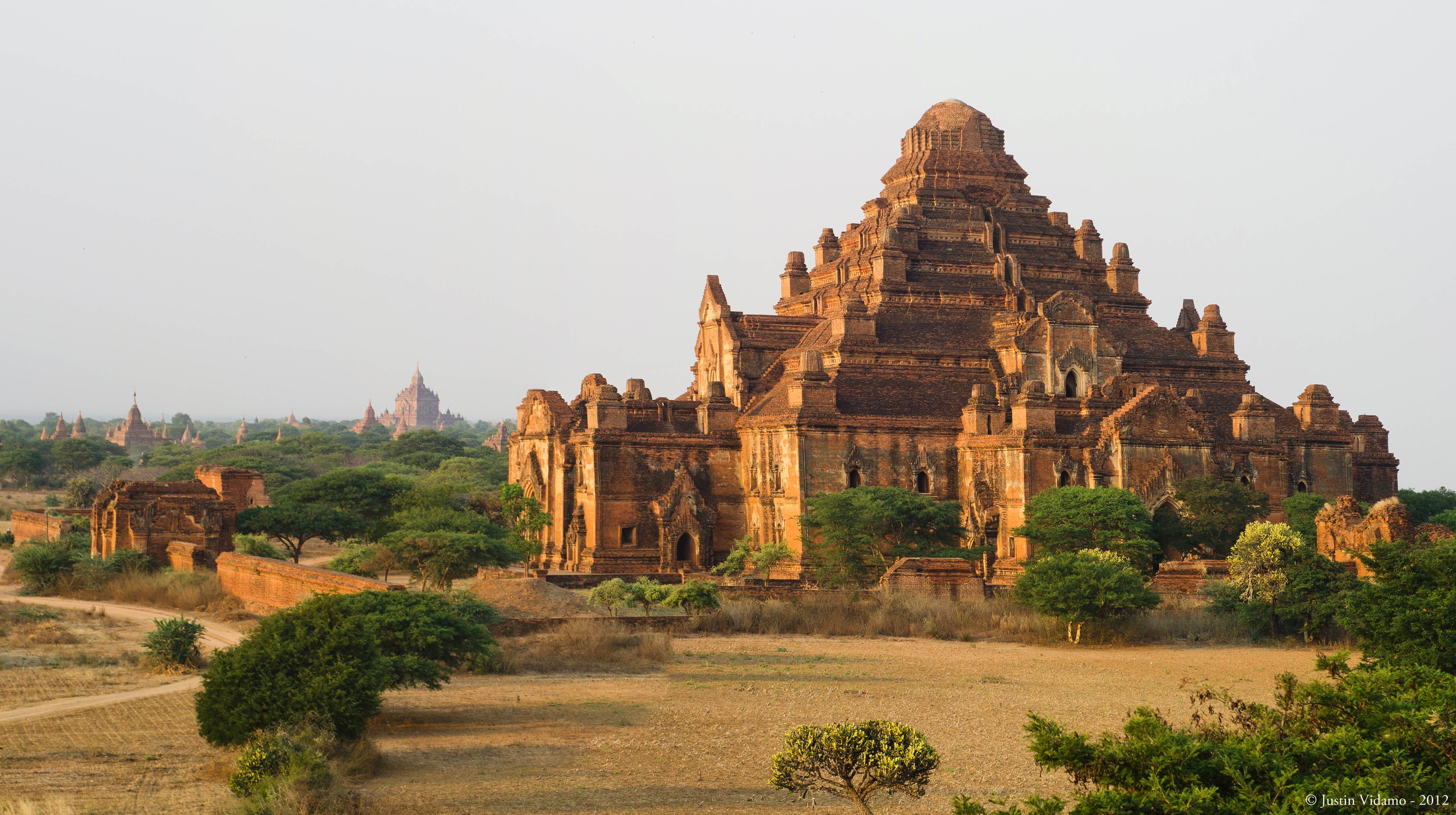 The Dhammayangyi is the largest temple in Bagan, and is built in a plan similar to that of Ananda Temple. Burmese Chronicles state that while the construction of the temple was in the process (1167-1170 A.D.), the king was assassinated by some Indians and thus the temple was not completed. Sinhalese sources however indicate that the king was killed by Sinhalese invaders.